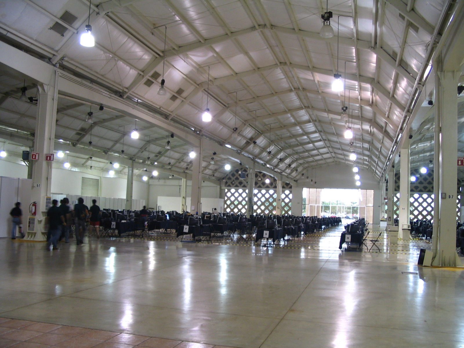 Salon Chichen Itza in Siglo XXI Convention Centre, Mérida, Mexico. The photograph was taken during the International Olympiad in Informatics 2006.